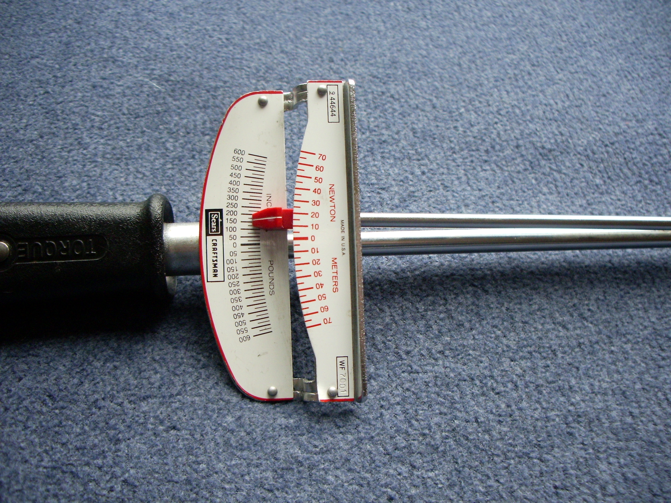 Example of a beam type torque wrench showing detail of the torque display scale. This shows a torque of about 160 inch pounds, 13.33 foot pounds, or 16 Newton meters.